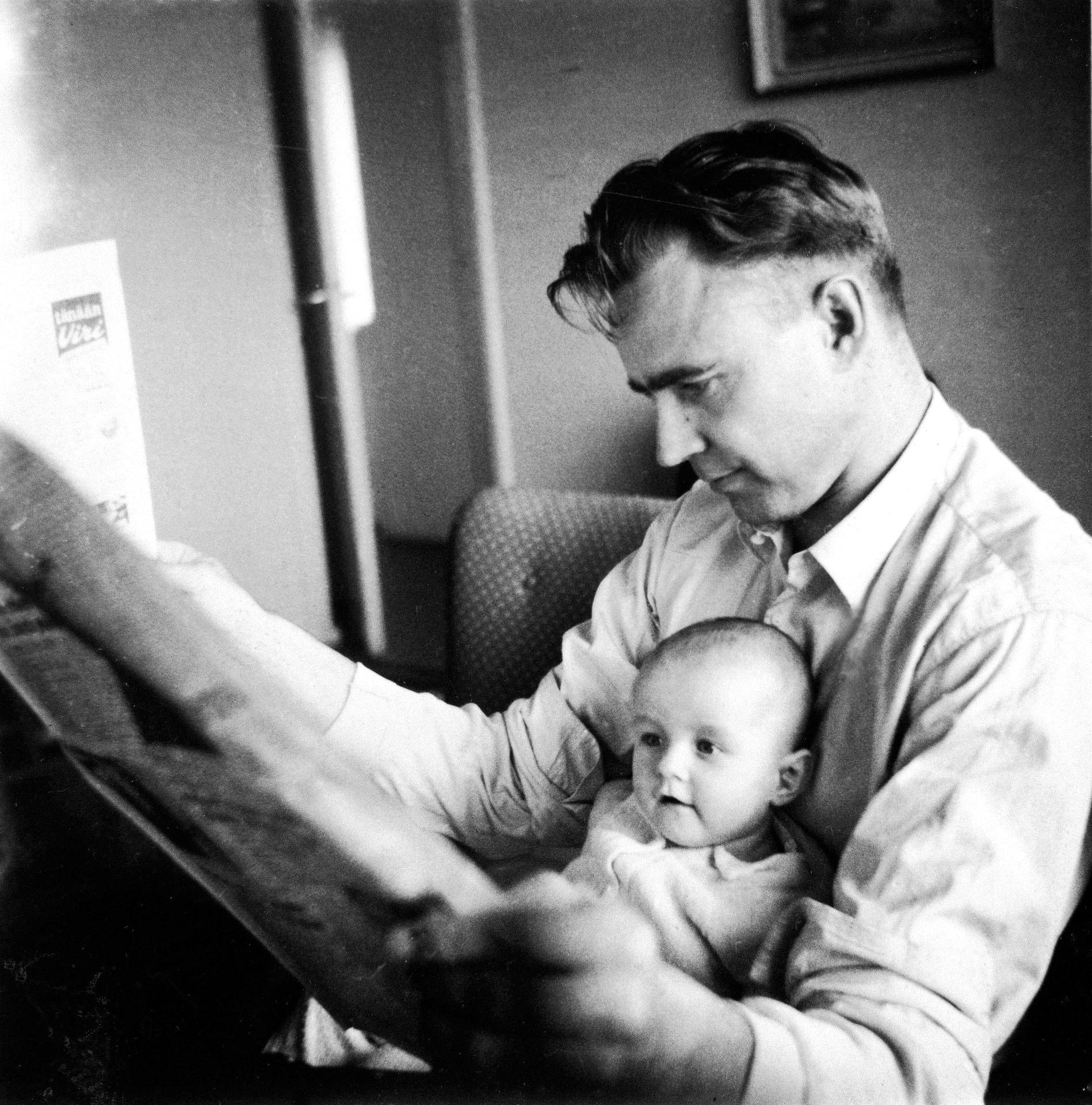 Photograph of the Finnish politician Mauno Koivisto (1923–2017) with his daughter Assi.